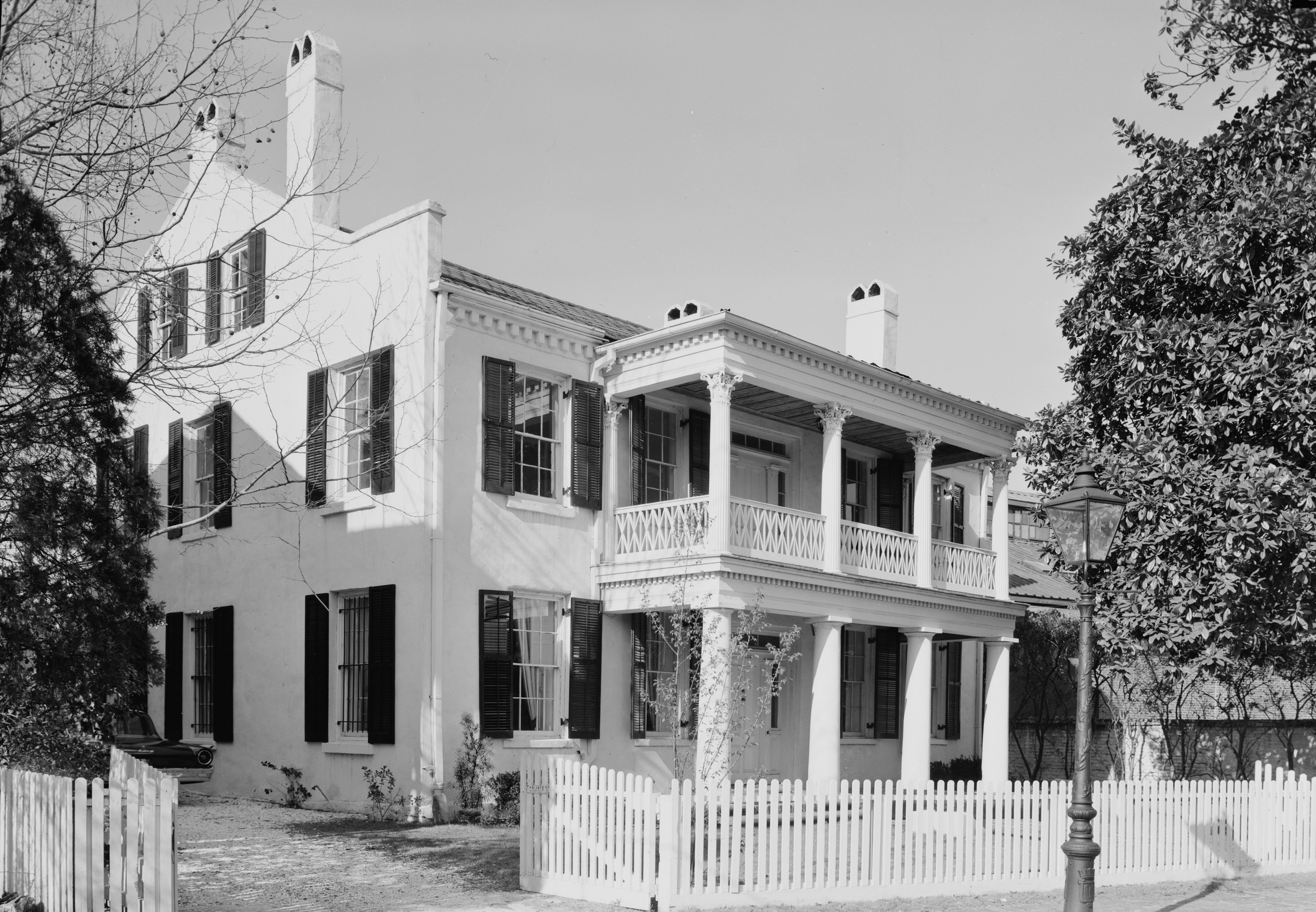 Jonathan Kirkbride House, 104 Theatre Street, Mobile, Mobile County, AL.